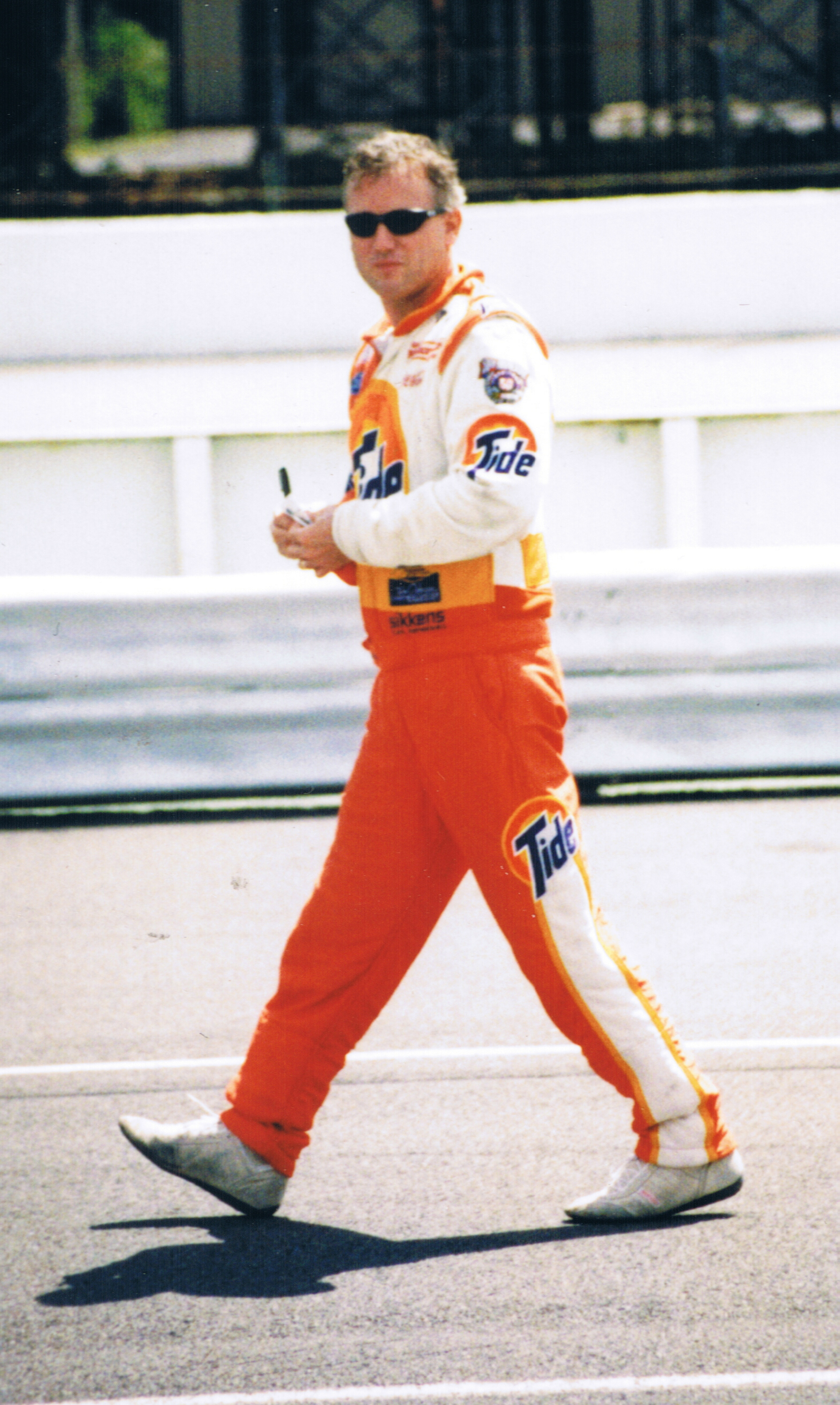 Ricky Rudd at Pocono Raceway, June 1998